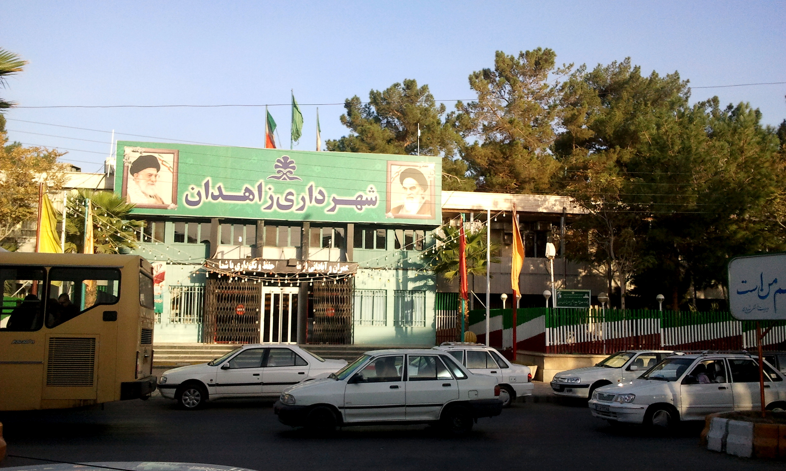 Zahedan